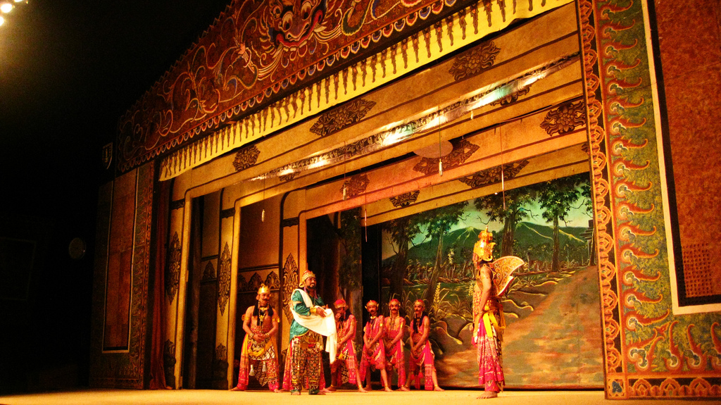 A Wayang performance played by artists in Sriwedari, Surakarta (Solo)